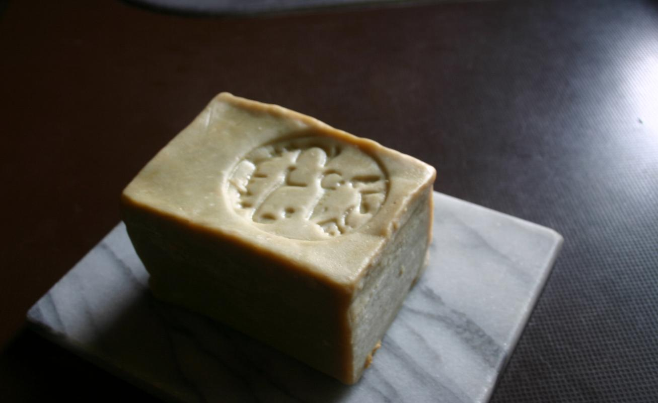 Soap produced by hand at Aleppo, Syria.